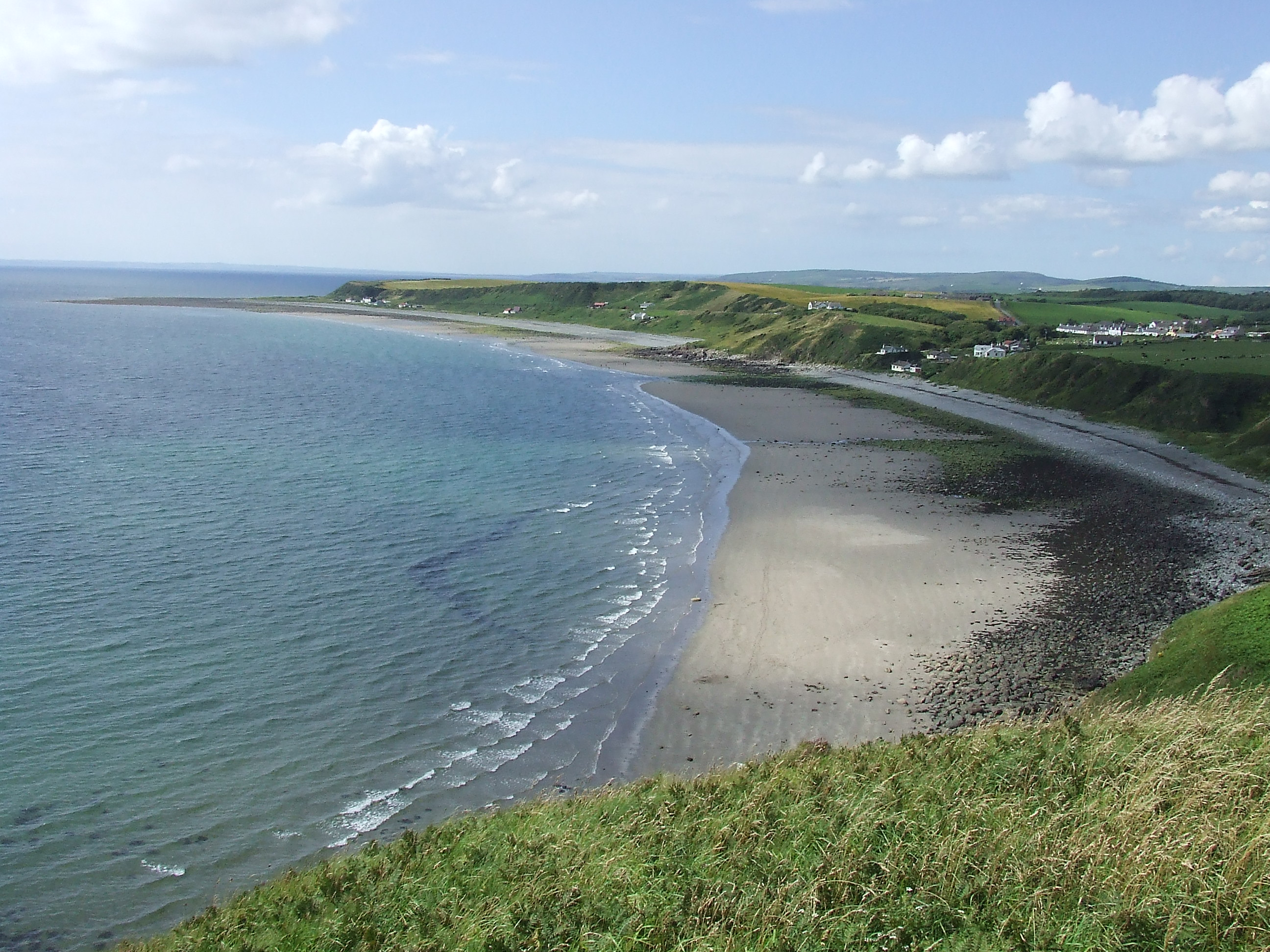 Monreith beach